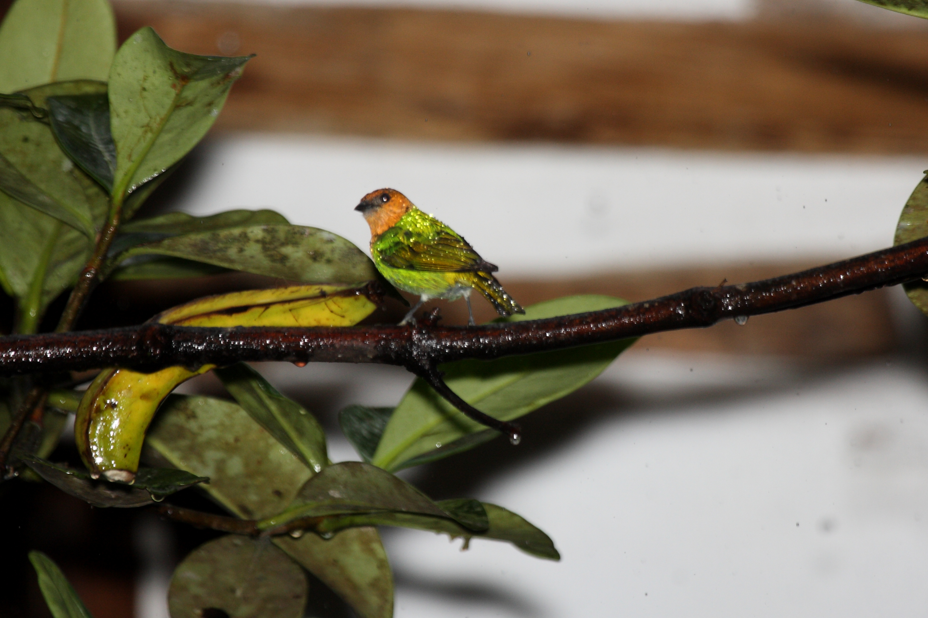 Silver-backed Tanager female. Photographed at Aguas Calientes, Peru.